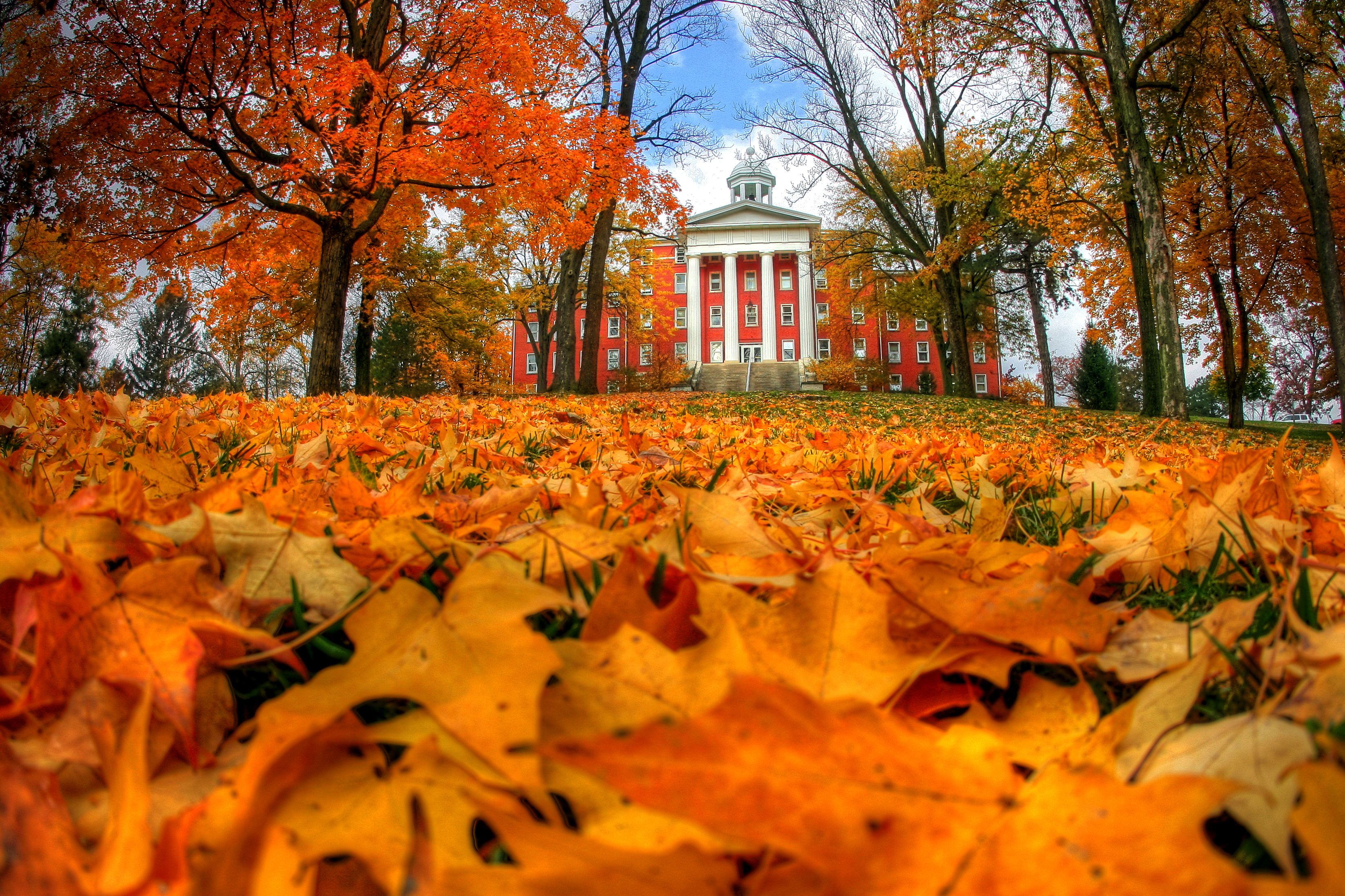 Myers Hall is seen during the fall of 2009. (Erin Pence/Wittenberg University)